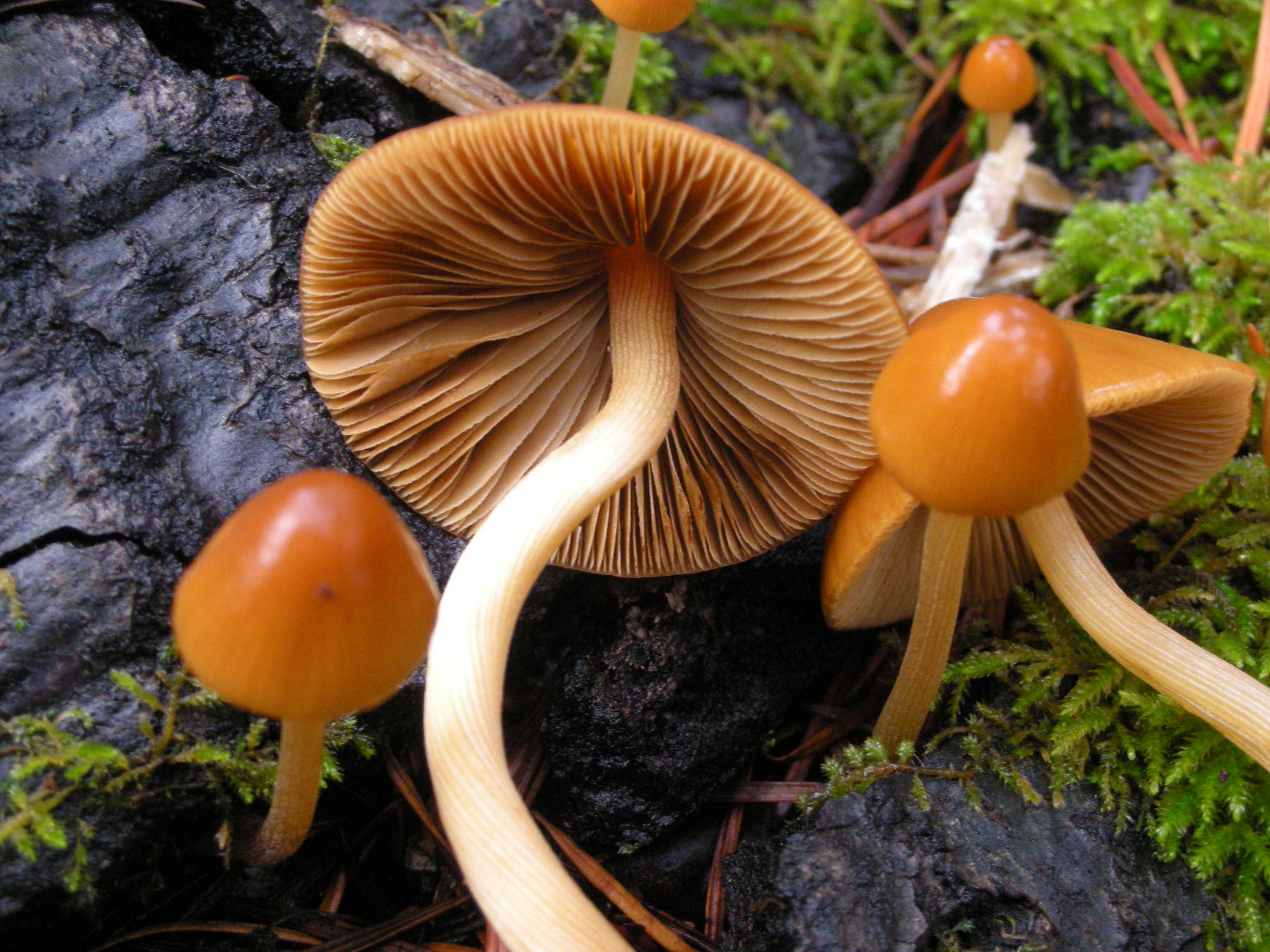 Conocybe tenera (Schaeff.) Fayod Image location: San Geronimo, Marin Co., California, USA These had a brown to cinnamon-brown spore print. They had caps that ranged from about 1.0 cm to 3.8cm across, and no sign of a veil or annulus. The stipes ranged up to 9.0 cm long and were hollow. The gills were thinly attached. The spores were approx. 10.0-11.0 X 6.5-7.0 microns. Even with my poor spore photos, one can see a distinctive truncated end or apical pore on most of them and probably a plage. I think Galerina is at least the right genus, but without the Smith monograph there aren’t many options to pick from, although G. cedretorum in Arora would appear to be close. Used references: They do seem to fit the description for Conocybe tenera in Mushrooms Demystified including the spore size and apical germ pore. For more information about this, see the observation page at Mushroom Observer.